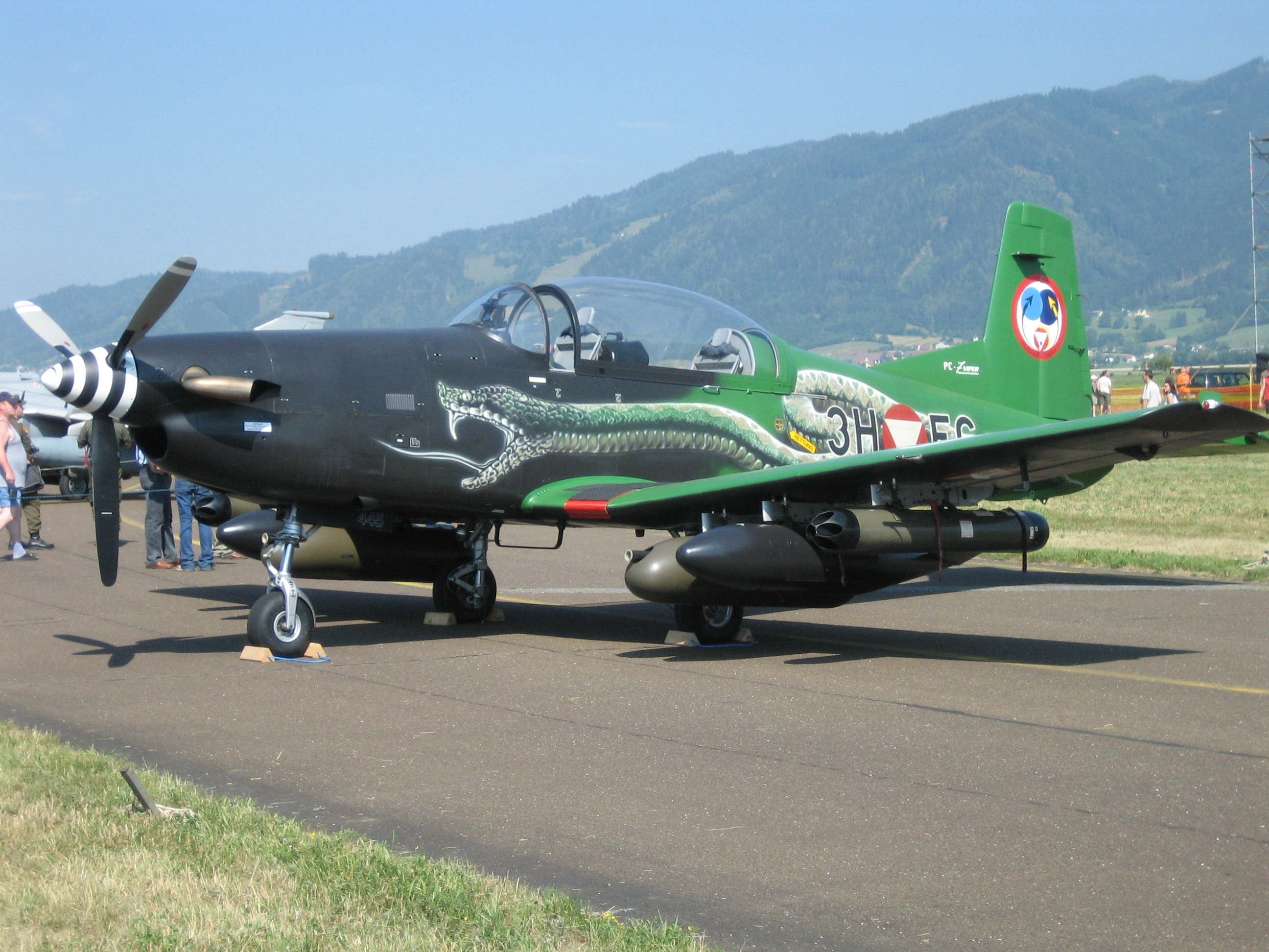 Pilatus PC-7 Turbo Trainer '3H-FG' of the 'Flight School' of the Austrian Air Force in 'Viper' livery and COIN-configuration